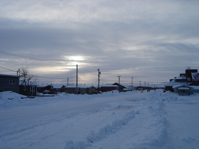 Aklavik, Northwest Territories, Canada